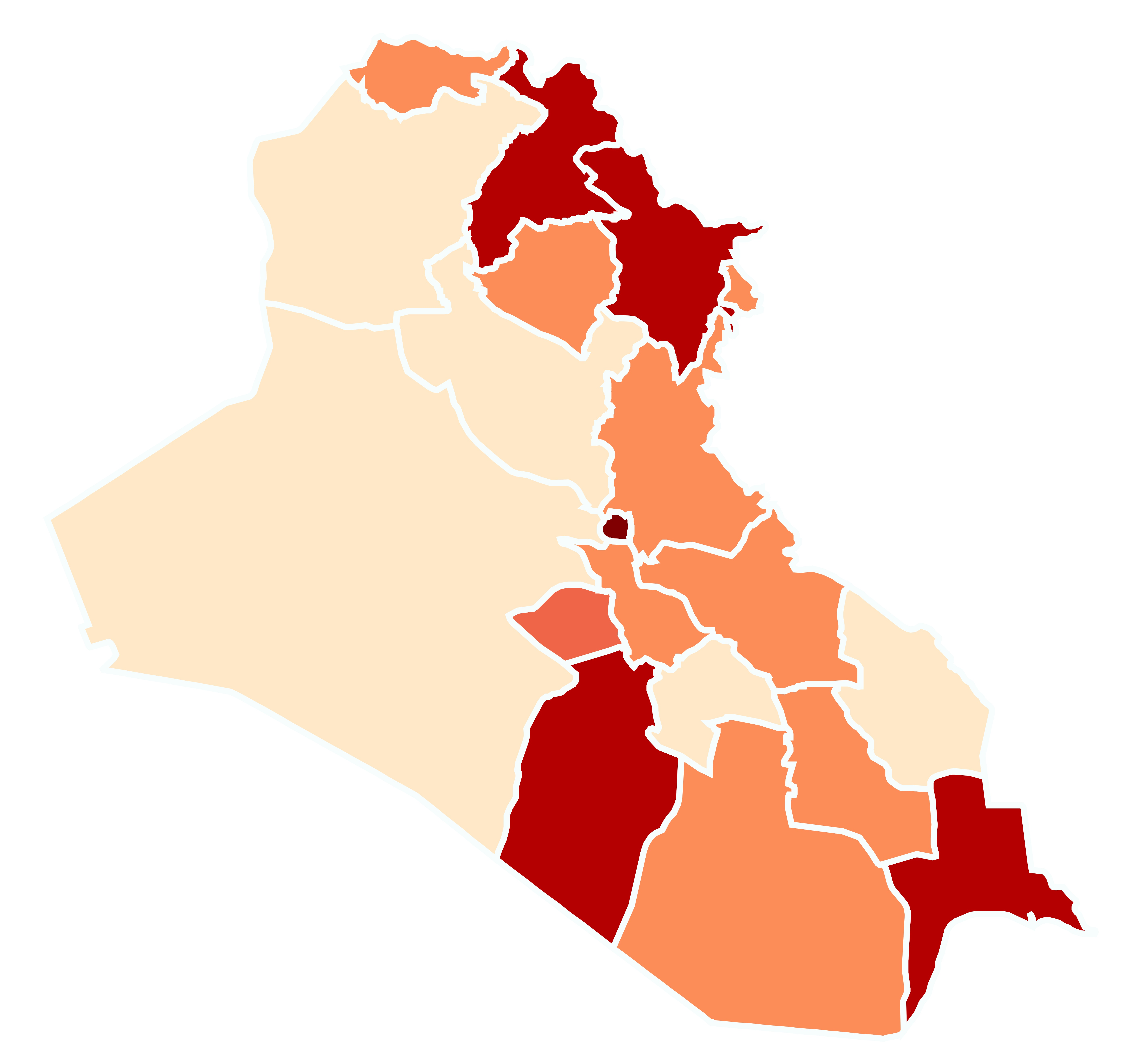 Number of confirmed cases by province (Iraq) Confirmed cases 1–4 Confirmed cases 5–9 Confirmed cases 10–49 Confirmed cases 50-99 Confirmed cases ≥100